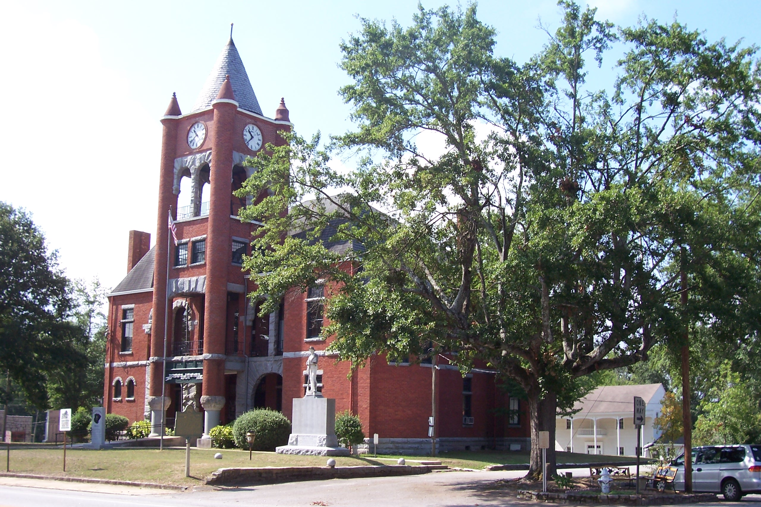 Lexington Historic District